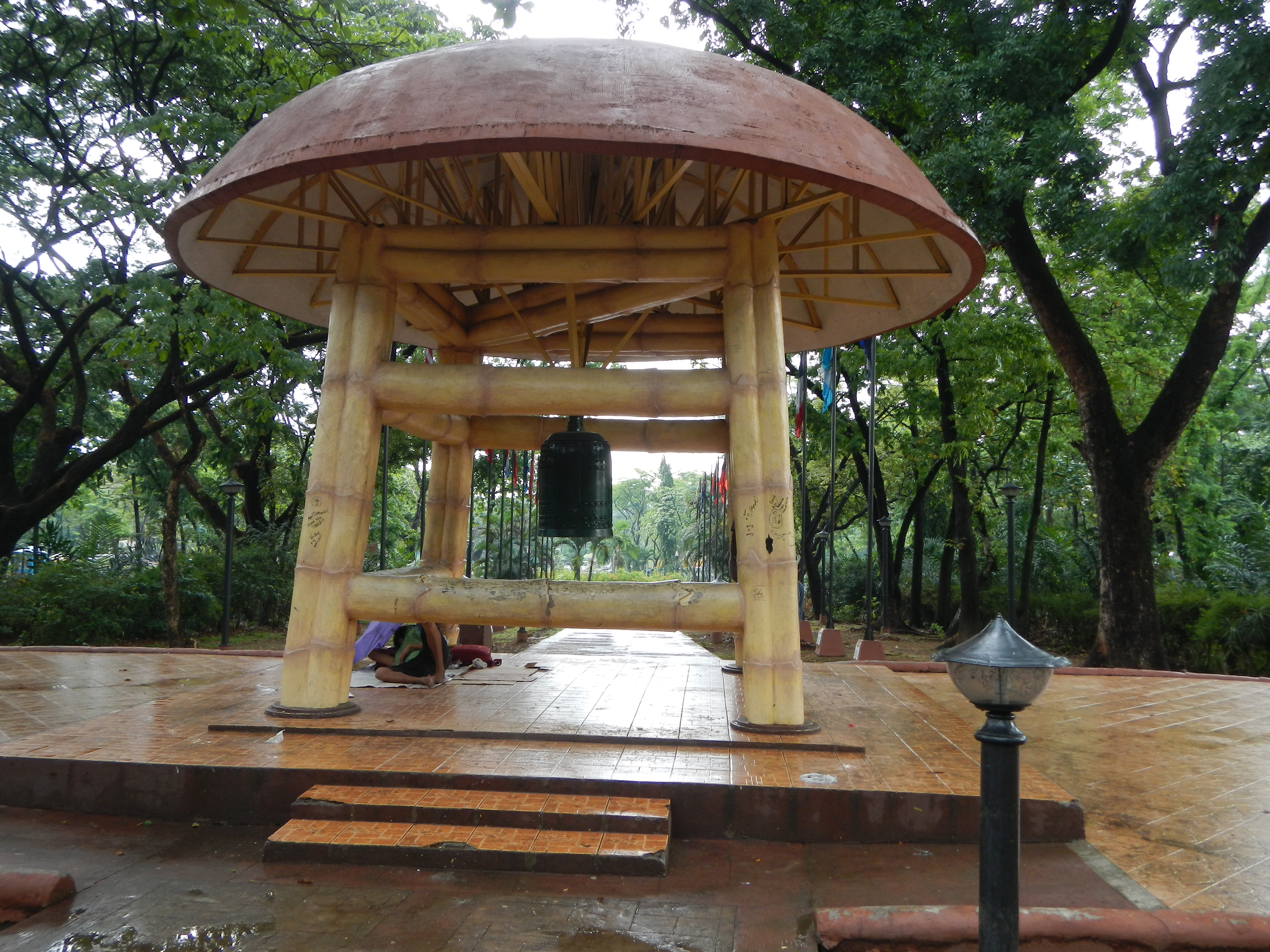 World Peace Bell, Peace Wall, (Pinyahan, Diliman, Quezon Memorial Park, World Peace Bell given by the World Peace Bell Association, 365 Kilos 1.03 meters high 0.60 meters diameter a giant Copper Bell placed in a circular bamboo shade located in the middle of a short path walk, resembles the bell seen in the Shaolin Temple in China inaugurated at dawn on Human Rights Day, December 10, 1994, by HE President Fidel V. Ramos Coordinates: 14°38'59"N 121°2'57"E. in Quezon Memorial Circle, Quezon City (bounded by the Elliptical Road, a large 2-km Roundabout and Landmark in Quezon City, a tall Mausoleum containing the remains of Manuel L. Quezon, and his wife, First Lady Aurora Quezon, Quezon Memorial Shrine, Dancing water fountain Quezon Memorial Marker, Quezon Monument Museum; Quezon Memorial Circle as a people's park 15.65 hectares of green space in the park. 14° 39′ 03.98″ N, 121° 02′ 57.4″ E Metro Manila).